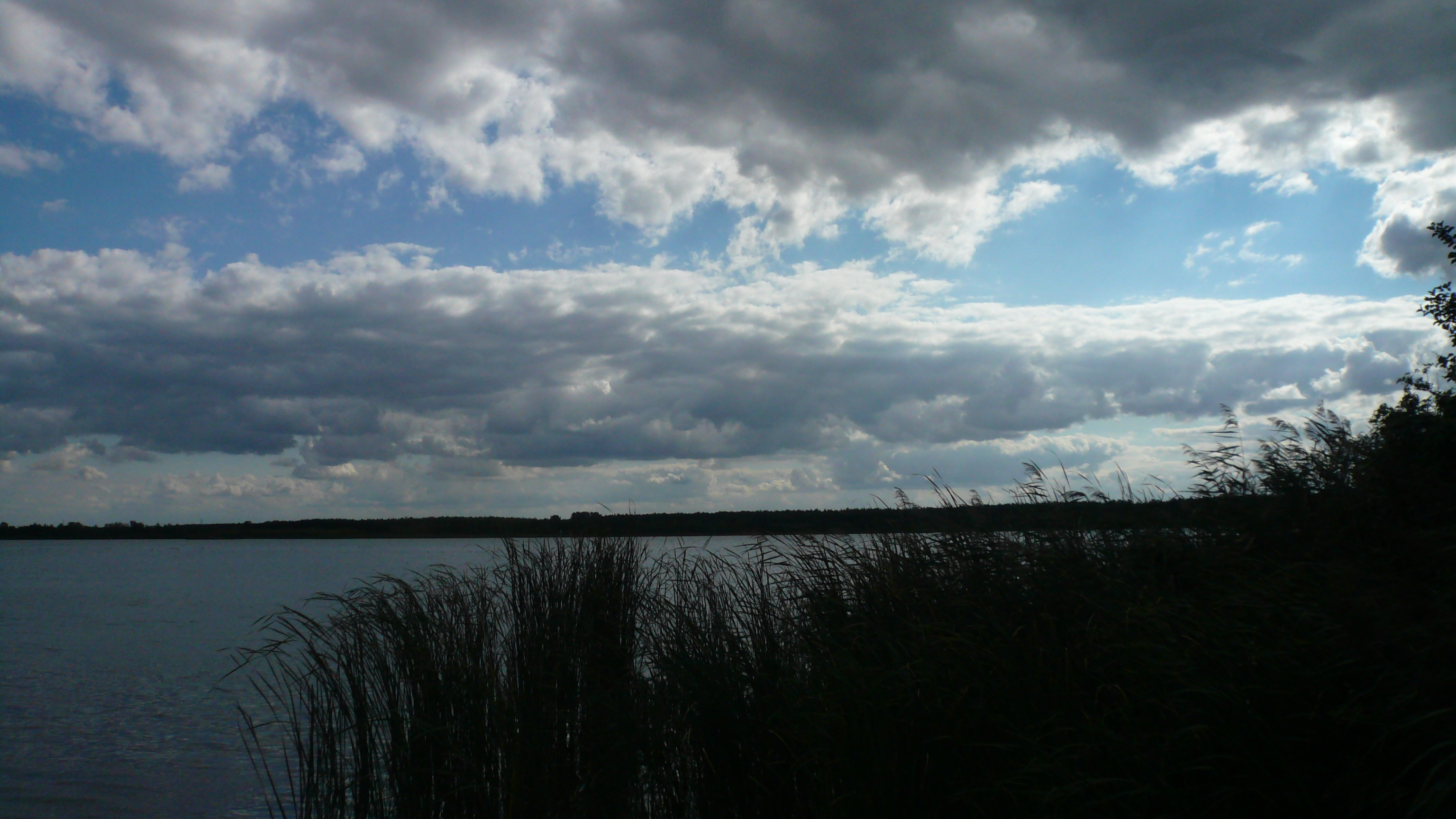 The Okręt lake (Poland)